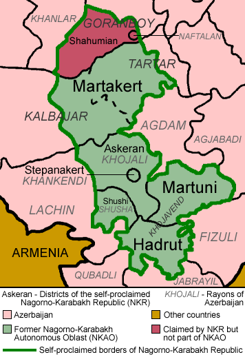 Map of the regions of Nagorno-Karabakh, transliterated to English. Made by User:Golbez.